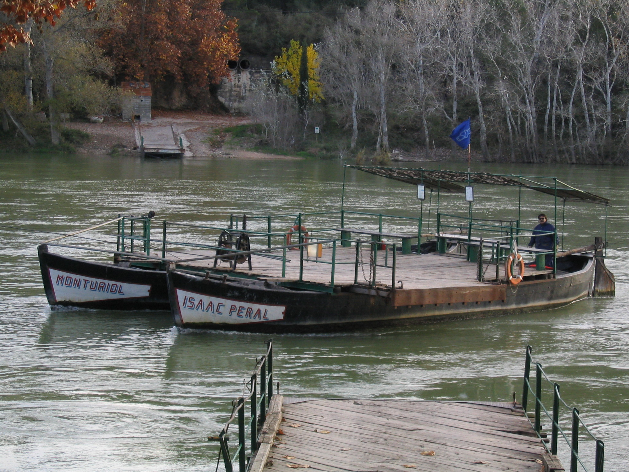 Cable Ferry (in catalan: Pas de Barca for crossing the Ebre river (or Ebro river), in Miravet, Catalonia, Spain. It is the last one active which has no engines. It uses the river flow and a cable.